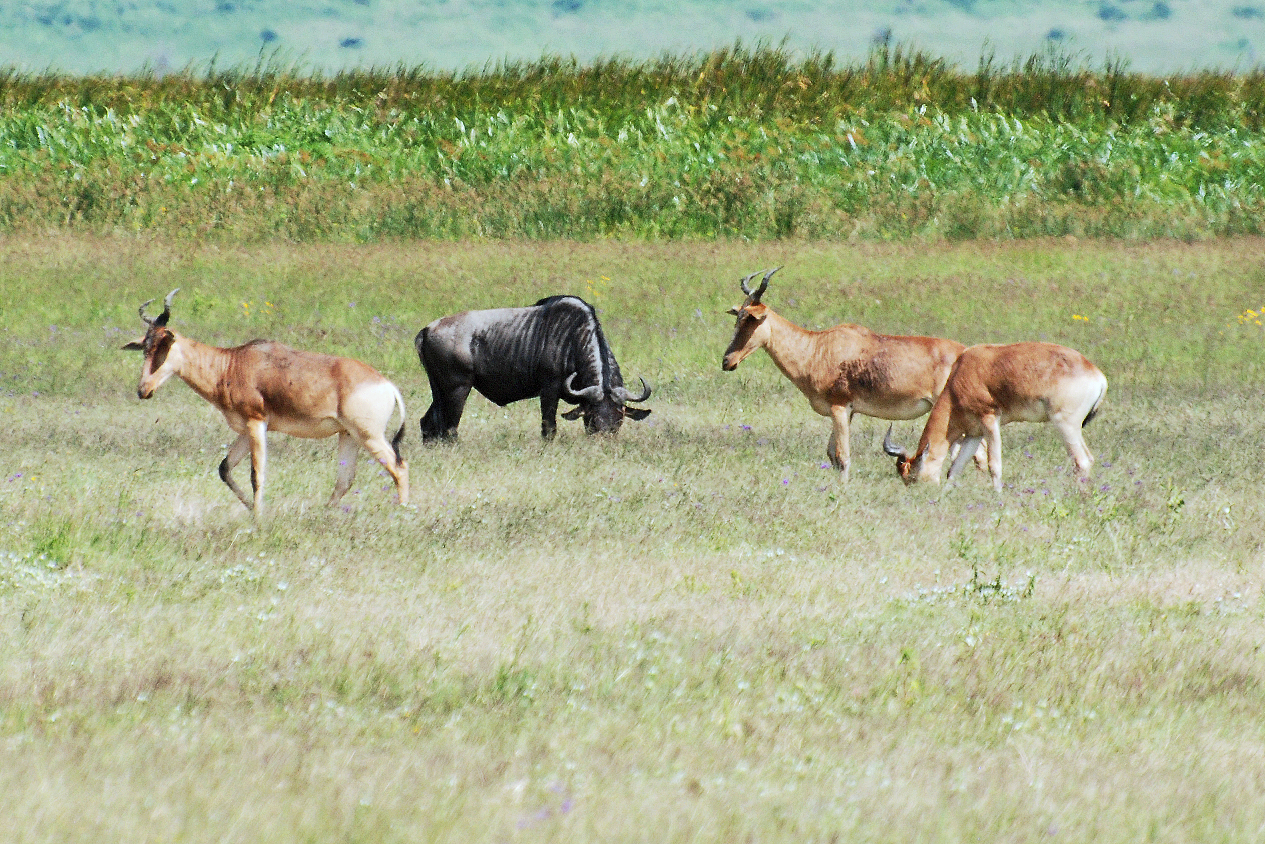 The hartebeest (Alcelaphus buselaphus) is a grassland antelope found in West Africa, East Africa and Southern Africa.